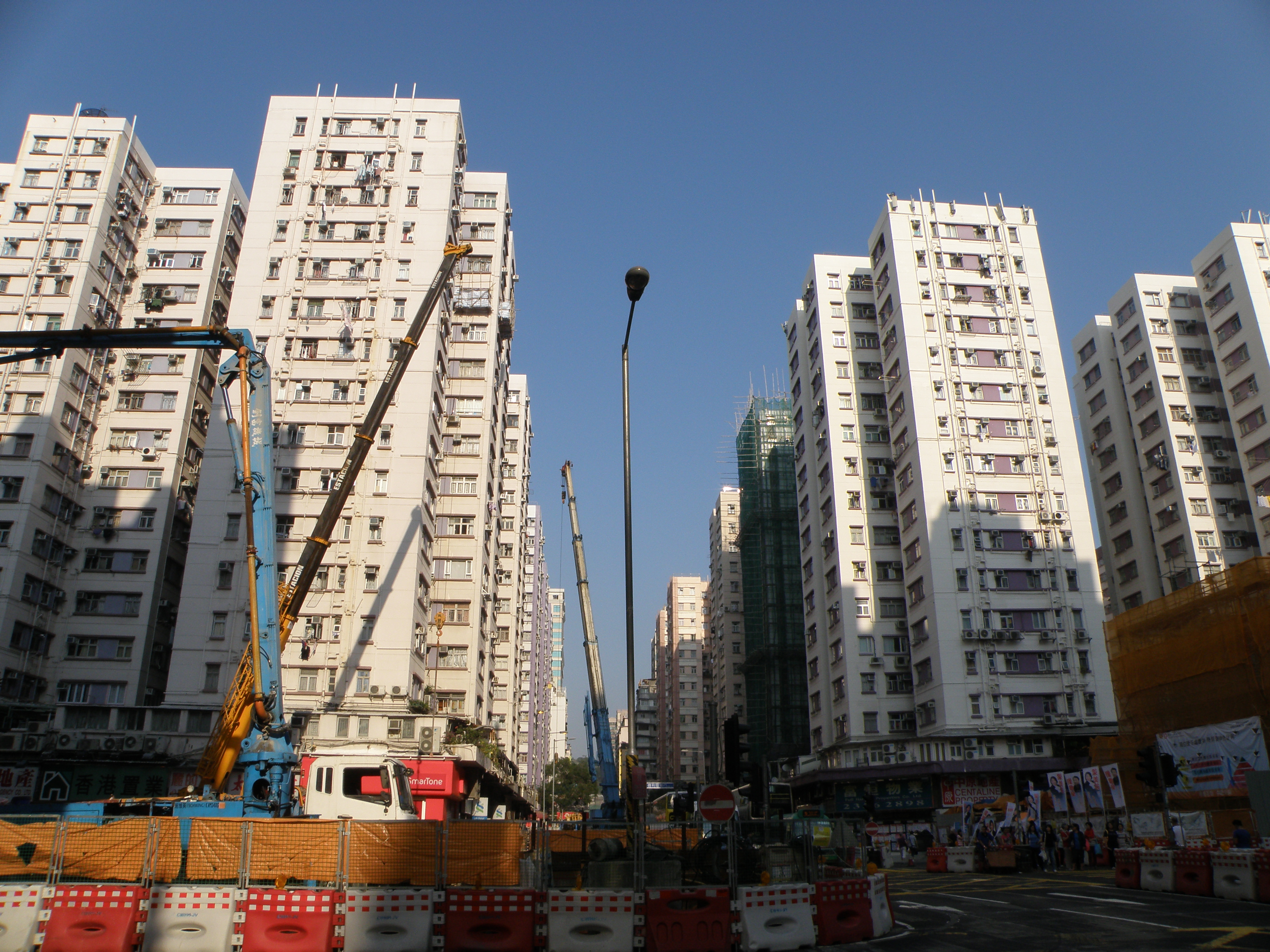 Whampoa Estate in Hung Hom, Hong Kong.